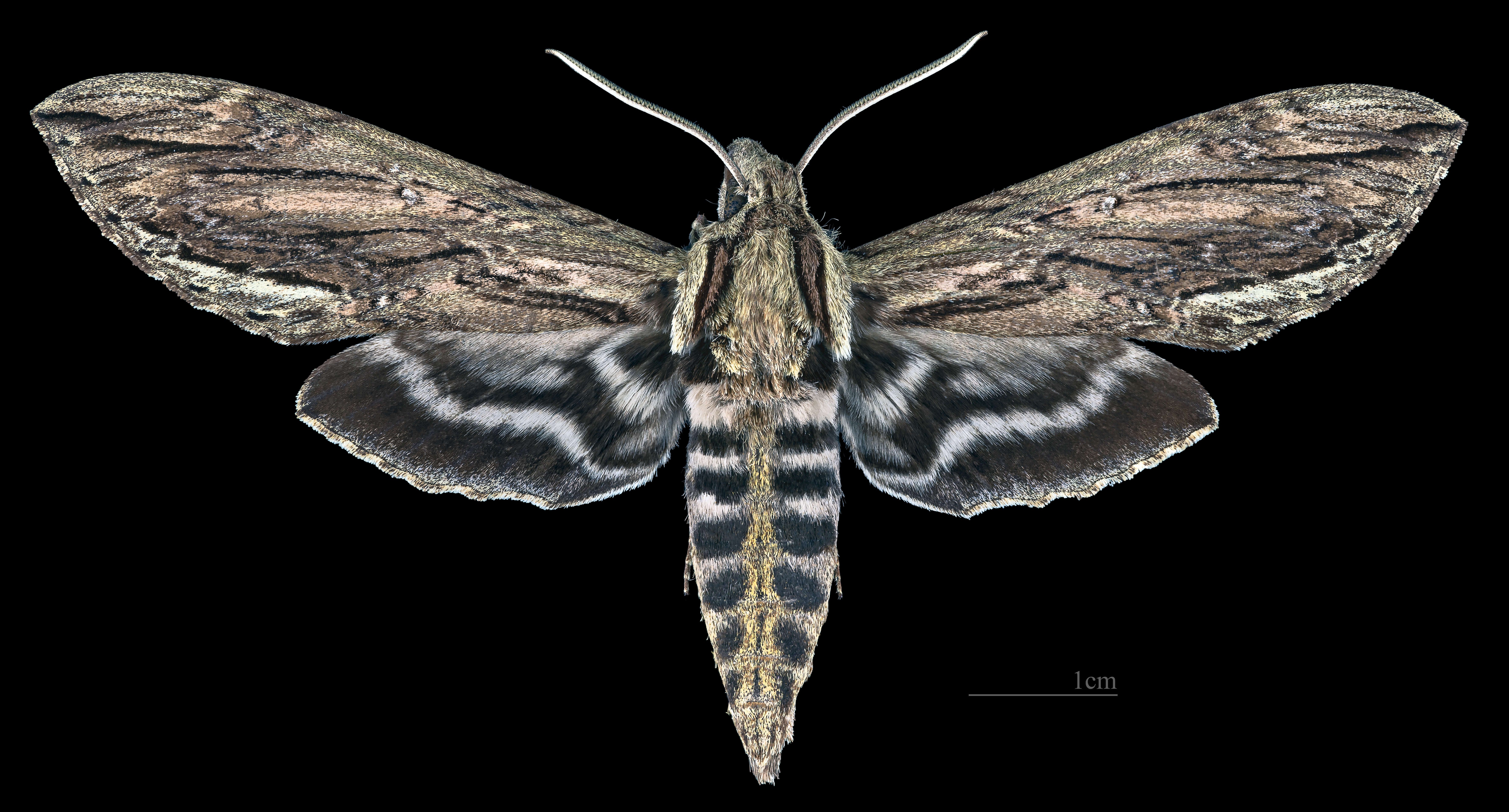 Lintneria merops - Dorsal side Collection of the Mathematician Laurent Schwartz